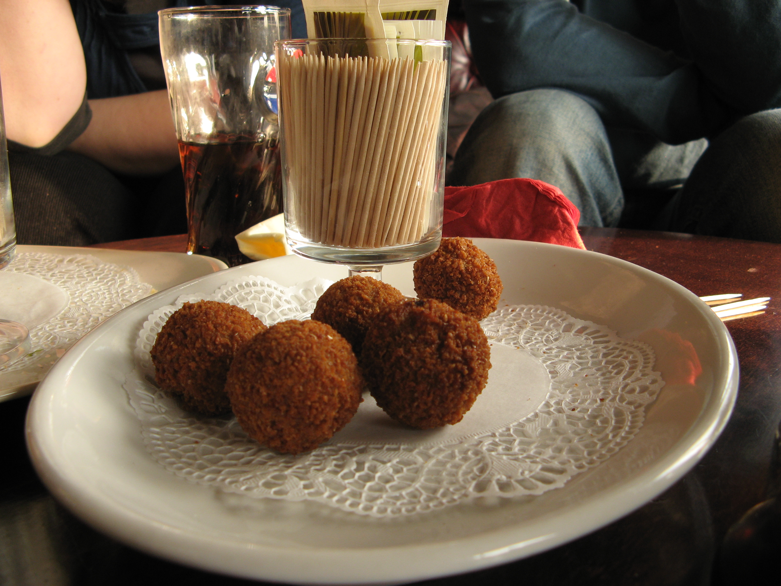 Bitterballs a small croquette eaten as a snack in the Netherlands mostly with beer or wine.